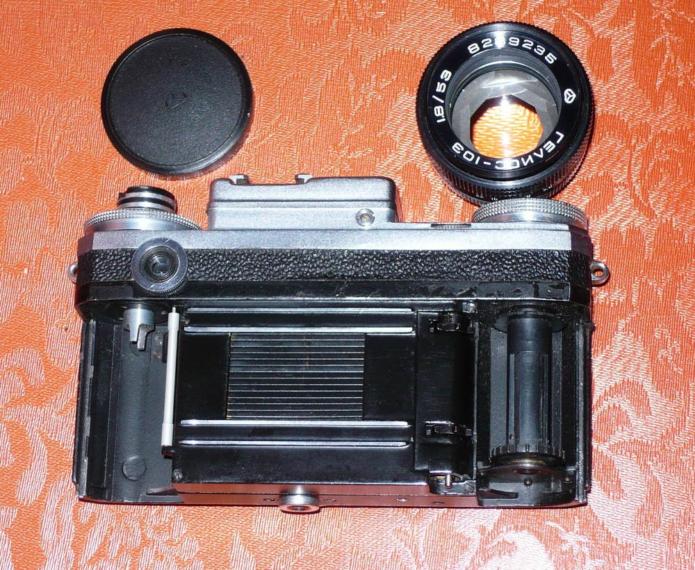 Kiev focal plane shutter